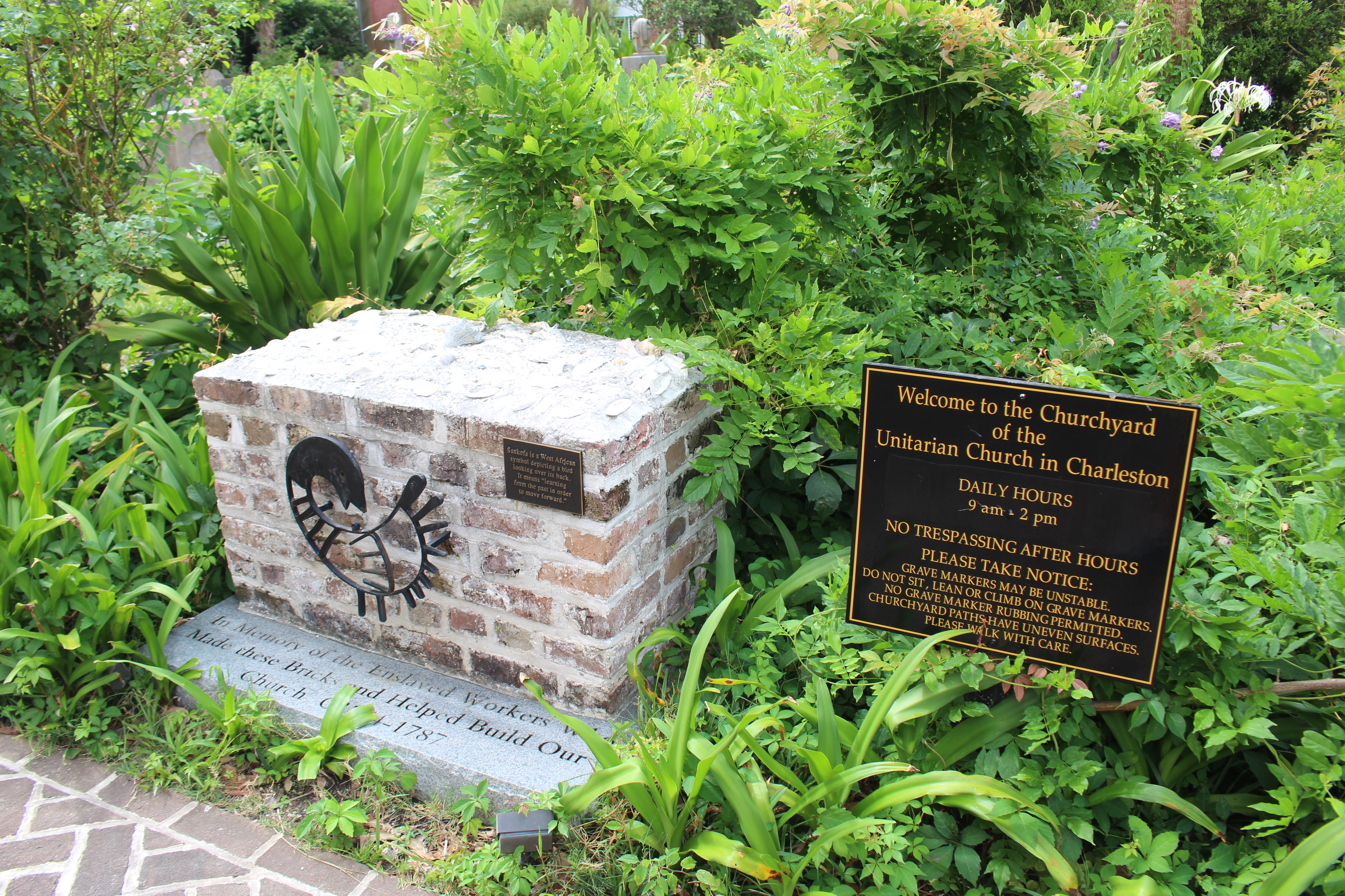 Unitarian Church of Charleston churchyard, Charleston County, South Carolina